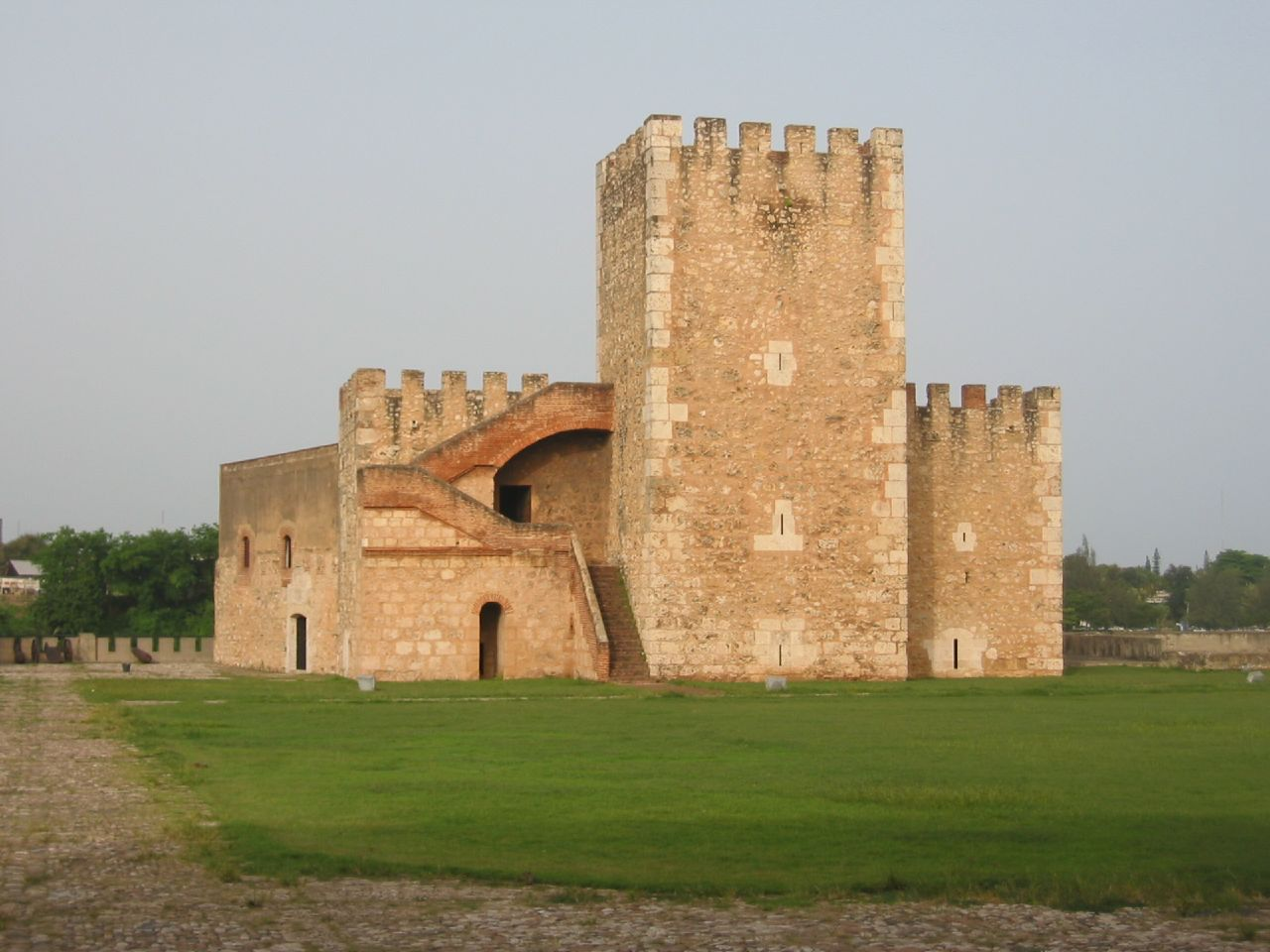 Torre del homenaje, Fortaleza Ozama in Dominican Republic.